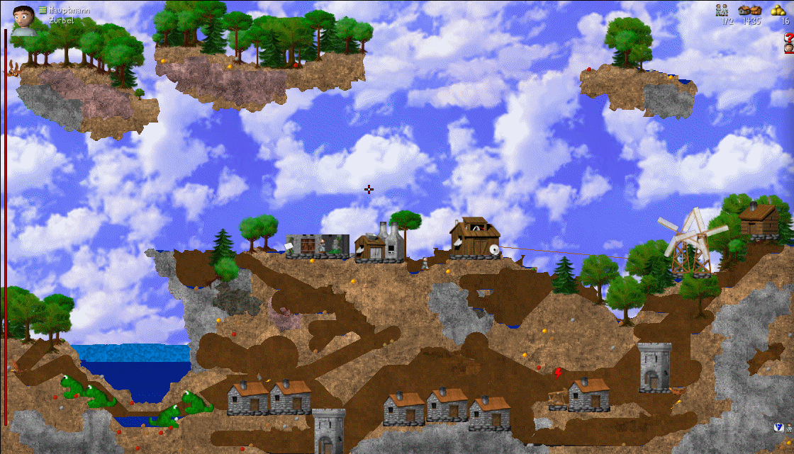 Screenshot of the computer game Clonk Endeavour version 4.9.5.4